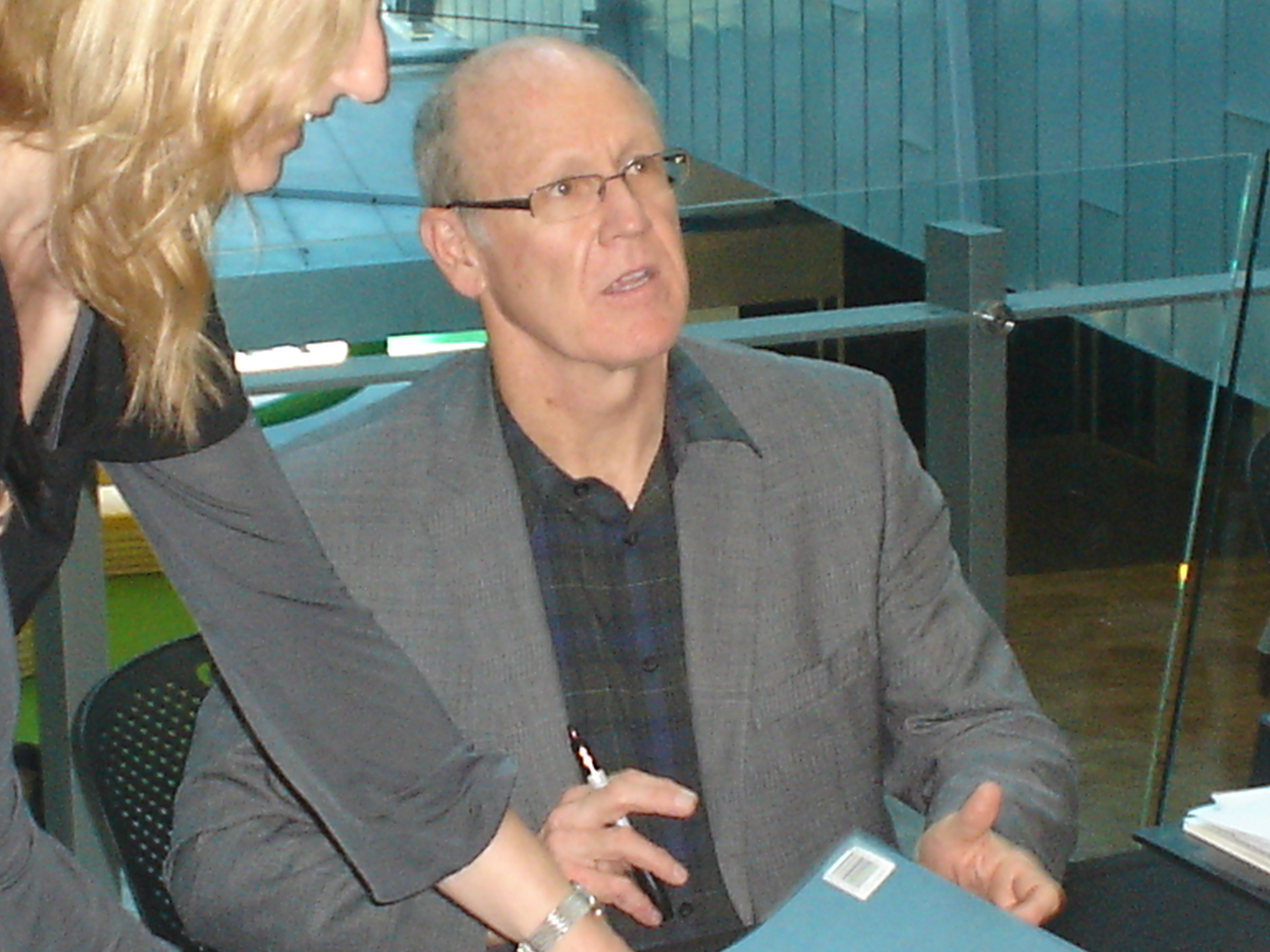 Glen Keane at a book signing for the Dreams Come True exhibition at the Australian Centre for the Moving Image (ACMI) in Melbourne, Victoria, Australia on the 19th of November, 2010.